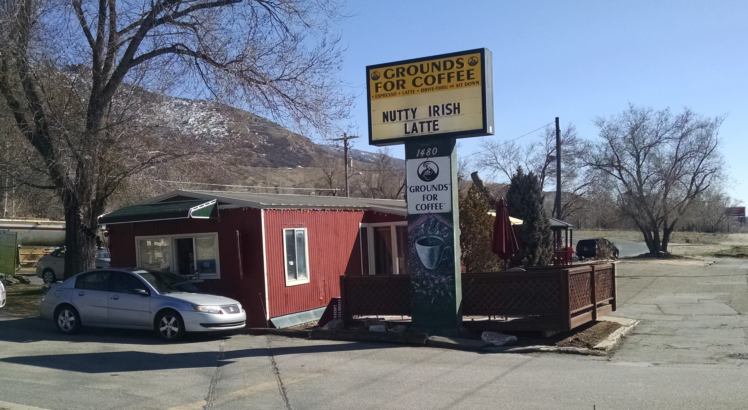 Grounds for Coffee (house) in Layton, Utah